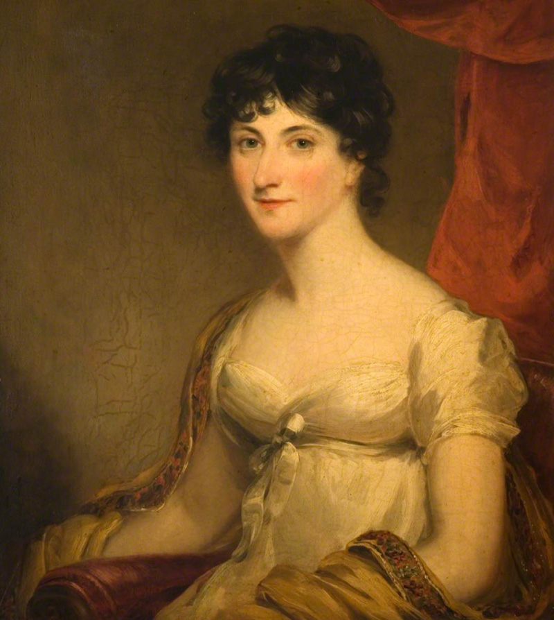 Hannah Maria Chetwynd of Brocton Hall, Staffordshire